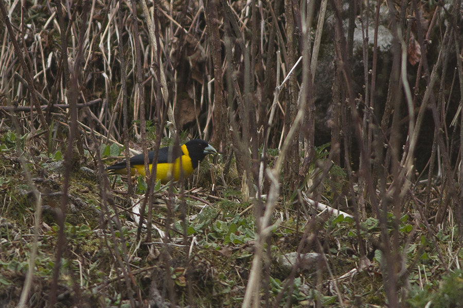 The species Collared Grosbeak had been photographed from Pangolakha Wildlife Sanctuary in East Sikkim, India on 05.05.2016.